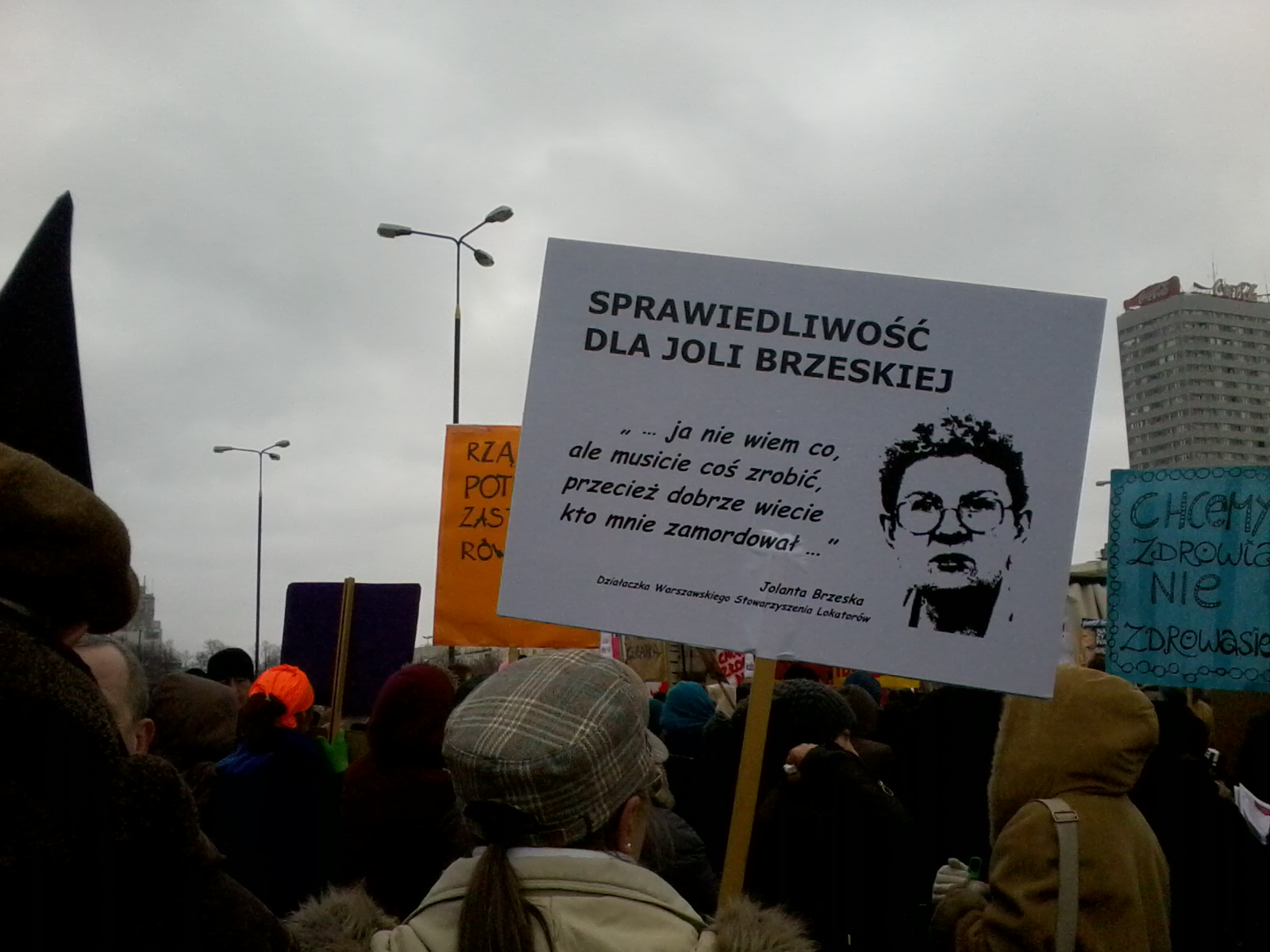 Transparent demanding justice for Jolanta Brzeska, tenants' movement activist murdered in 2011.